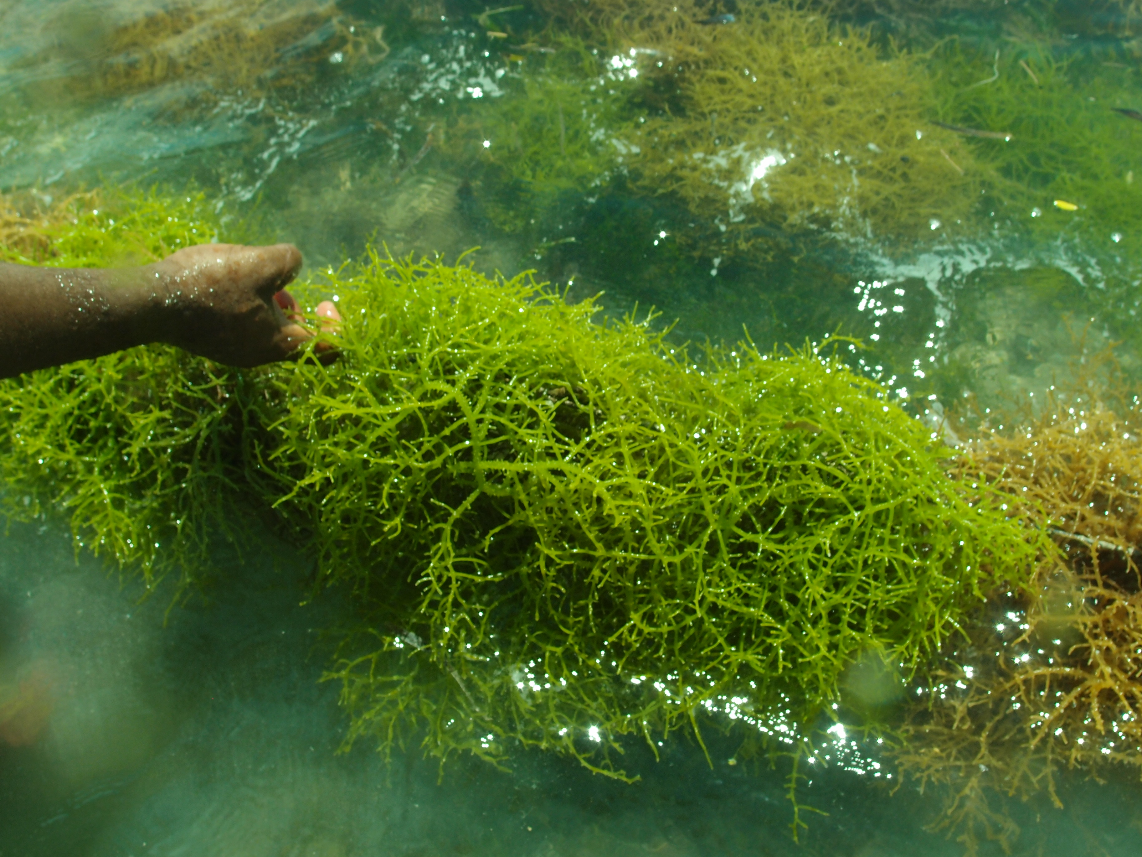 Eucheuma denticulatum, farmed for iota-carrageenan, in a local off-bottom cultivation in Bweleo on Zanzibar, Tanzania.